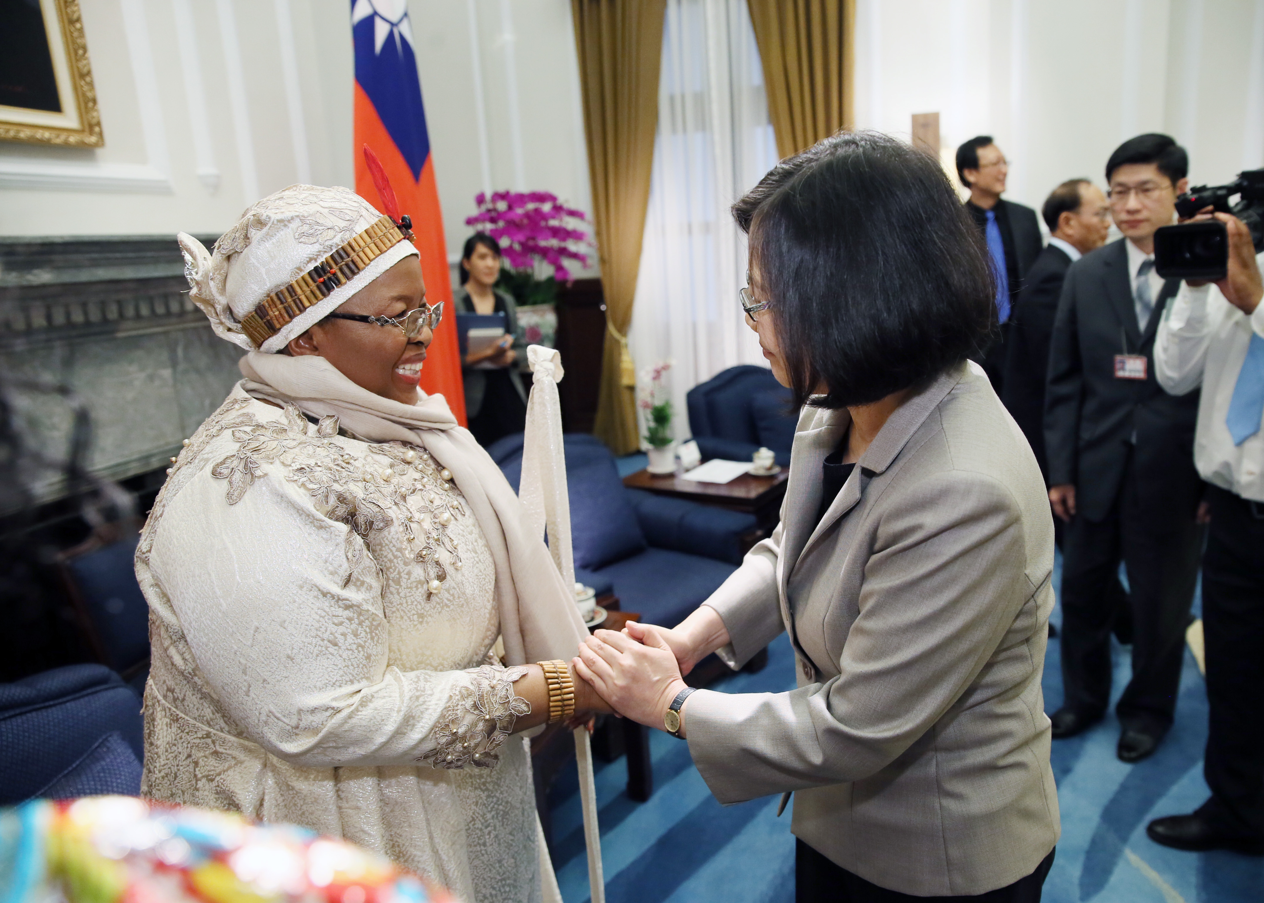 President Tsai meets with a delegation led by Her Majesty Queen Mother Ntombi Tfwala of the Kingdom of Eswatini. (2016/06/07)